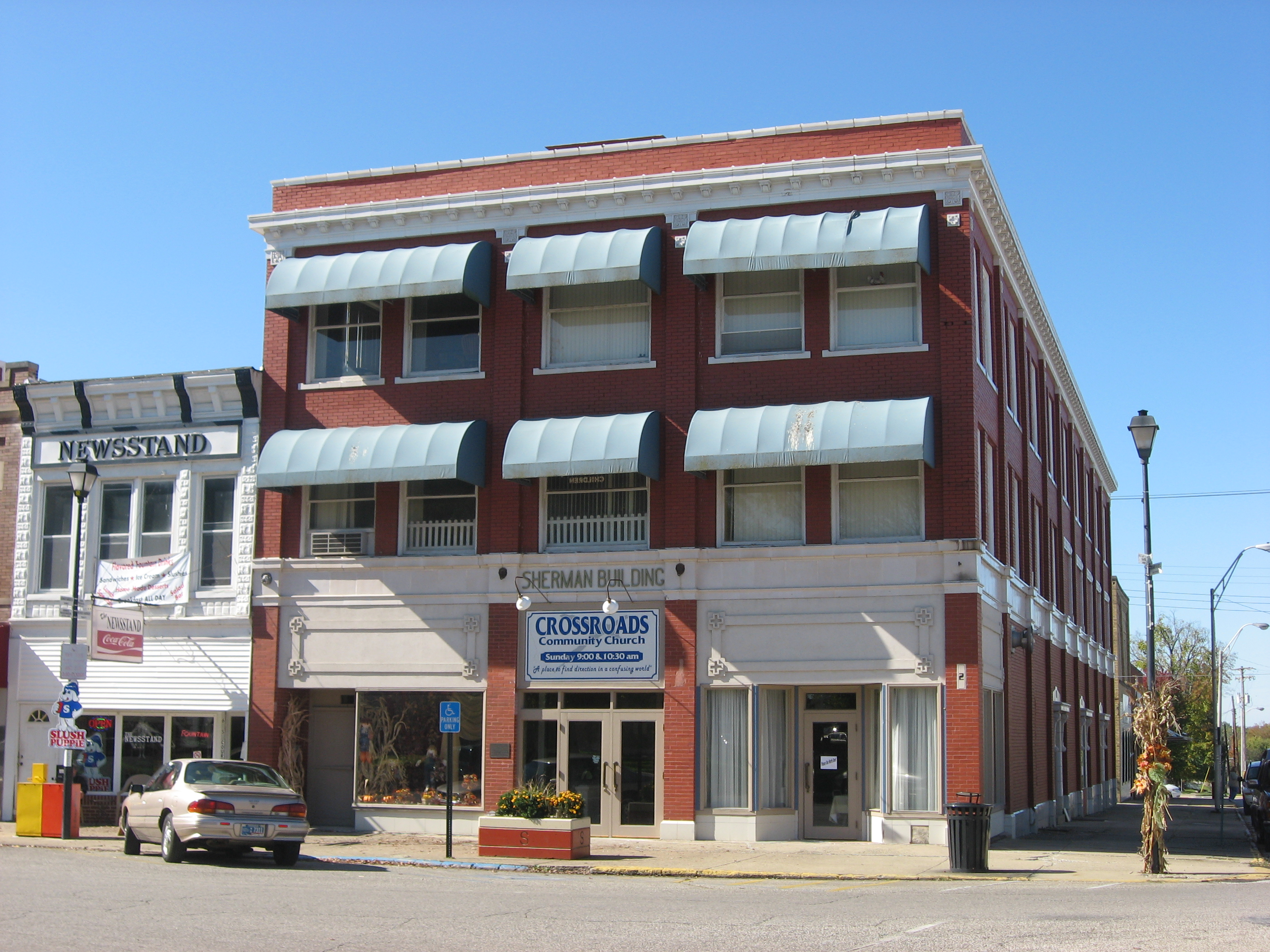 Front and northern side of the Sherman Building, located at 2-4 S. Court Street in downtown Sullivan, Indiana, United States. Built in 1915, it is listed on the National Register of Historic Places.